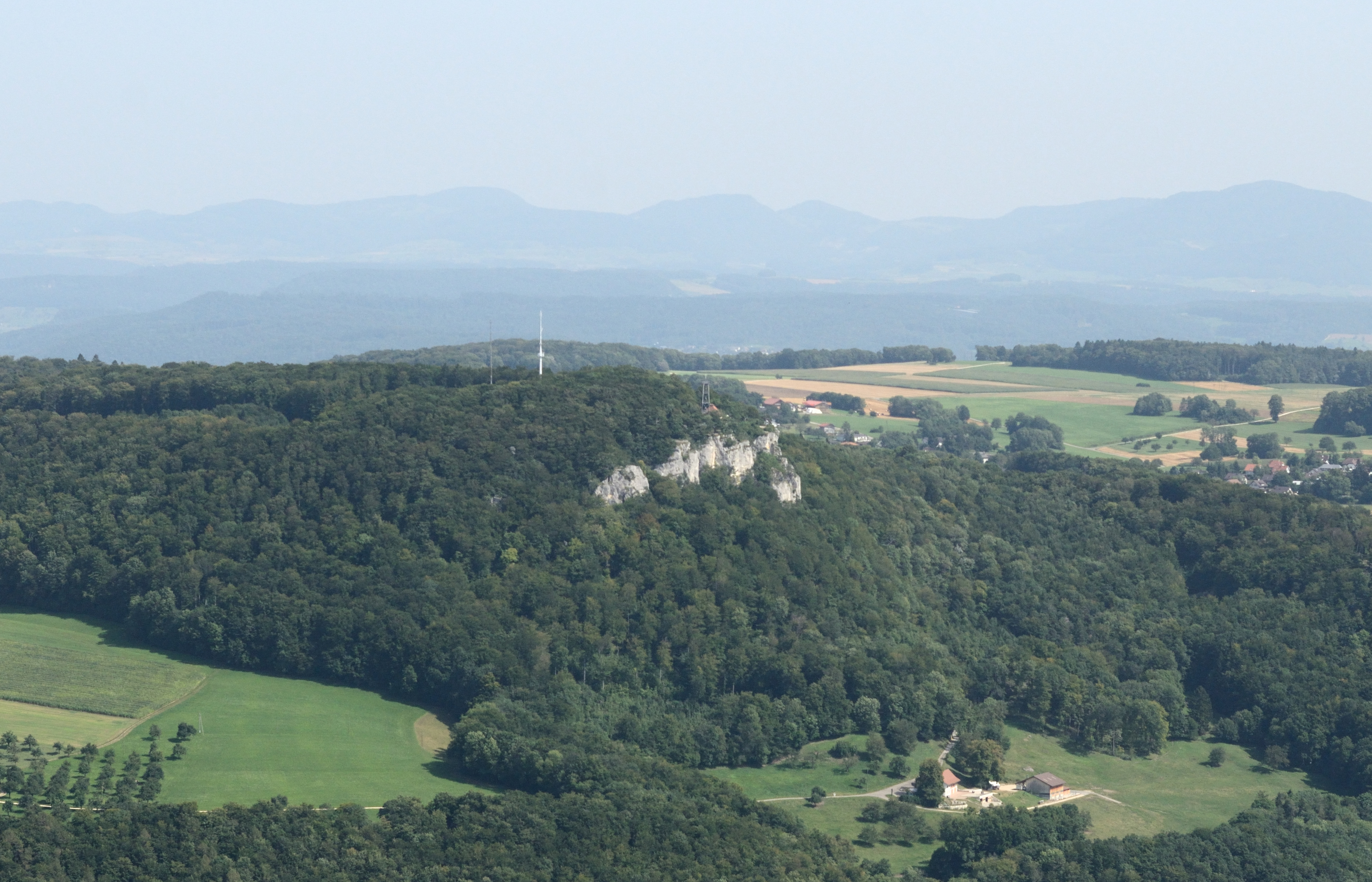 aerial view of Gempen